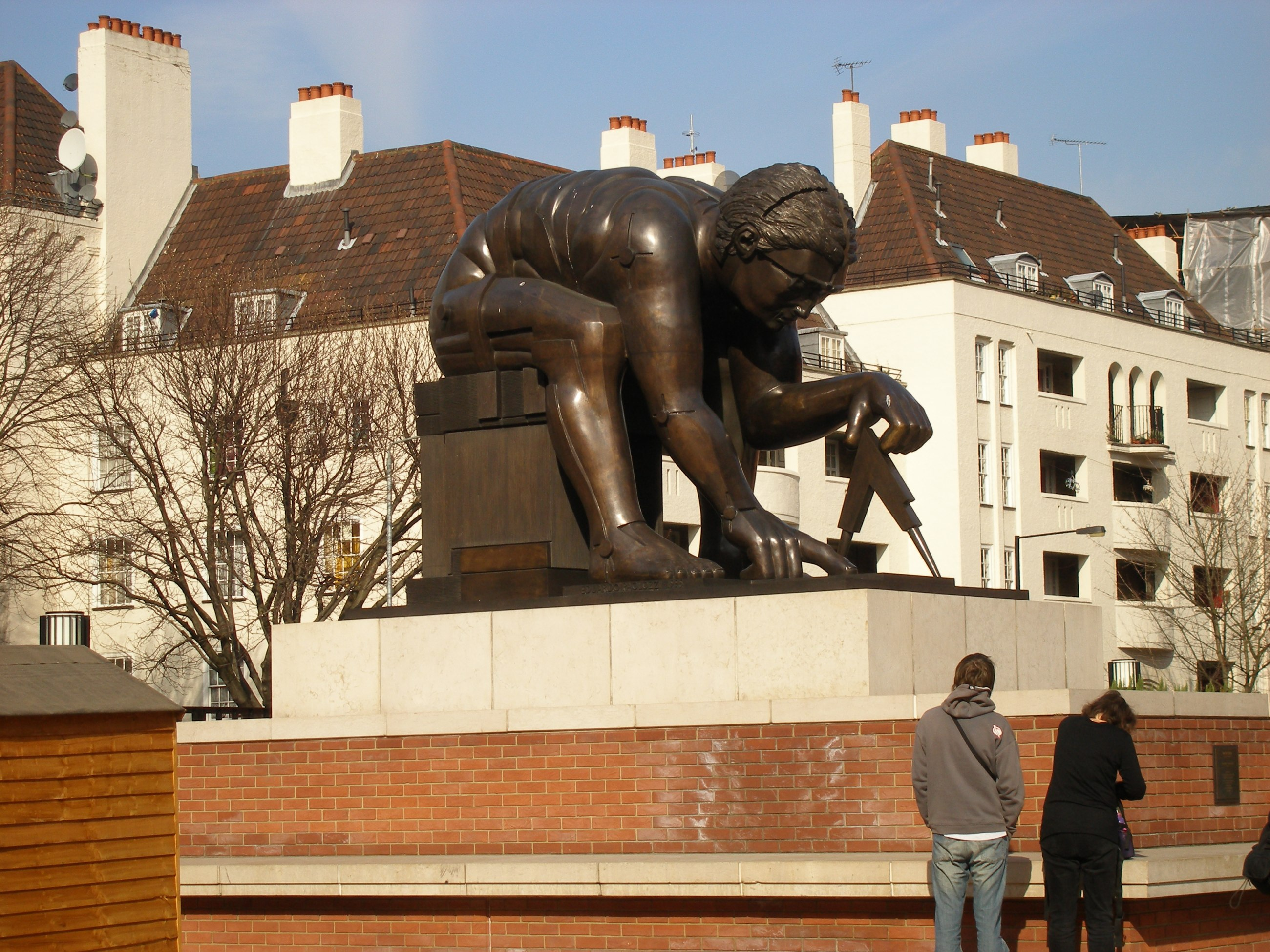 Statue of Newton (after Paolozzi) in the British Library courtyard (London). Photo by David Olivier. Other picture. Other picture. William Blake's "Newton".